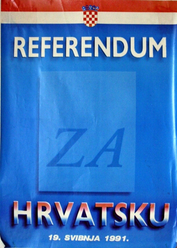 1991 Croatian independence referendum government issued poster